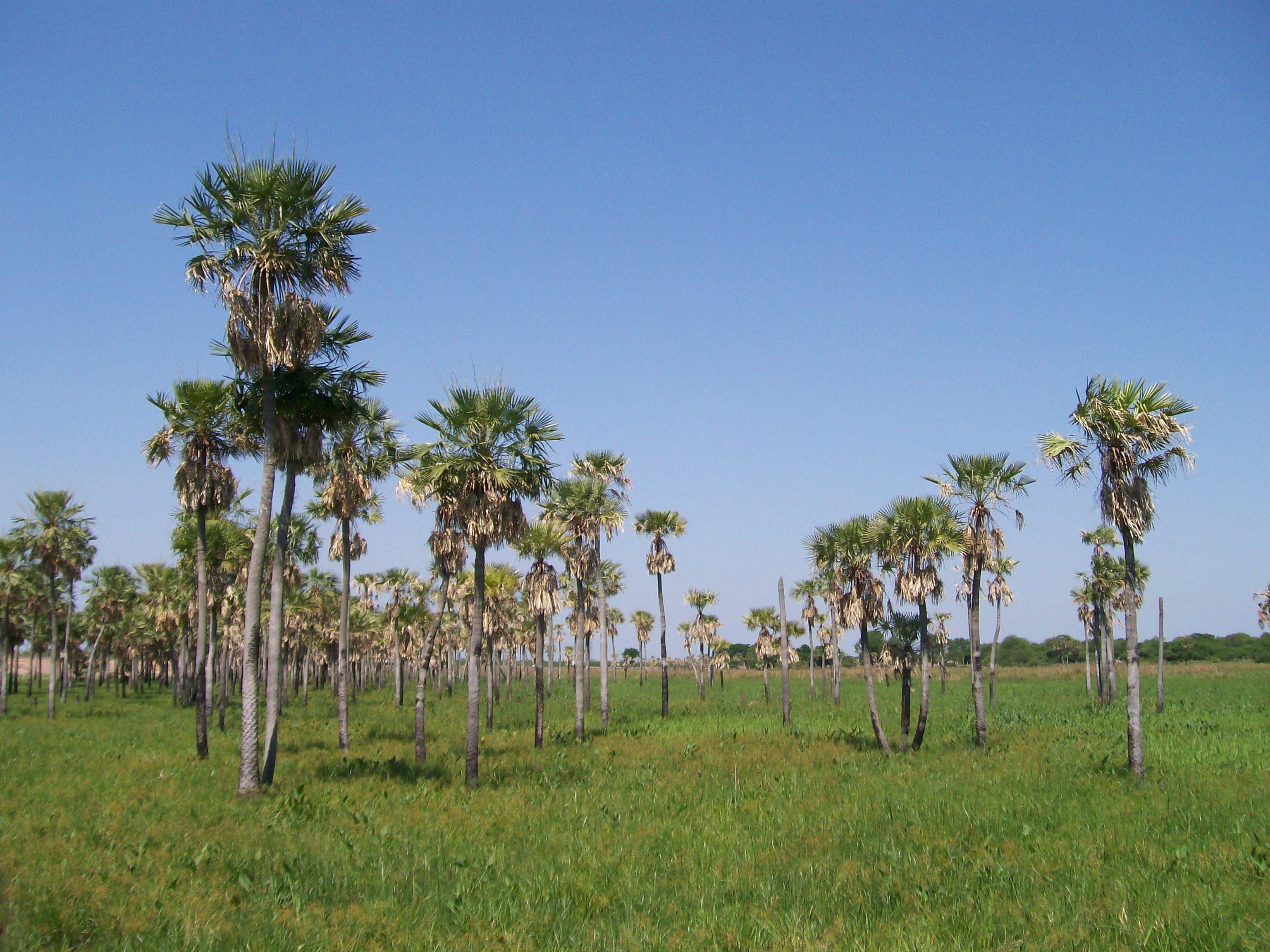 Palms field by left side of Argentine Road Nº 16 in Resistencia (Monte Alto borough), Chaco, Argentina.